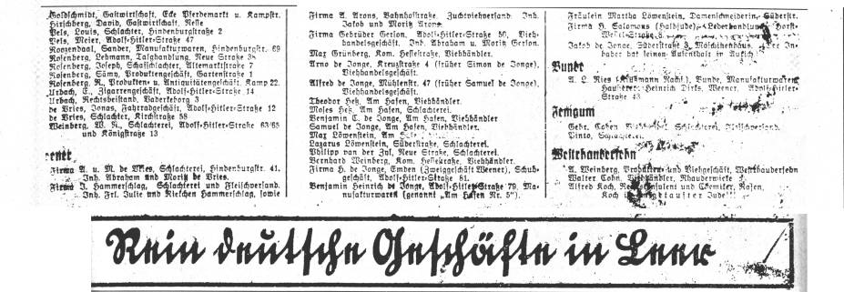 newspaper cutting taken from